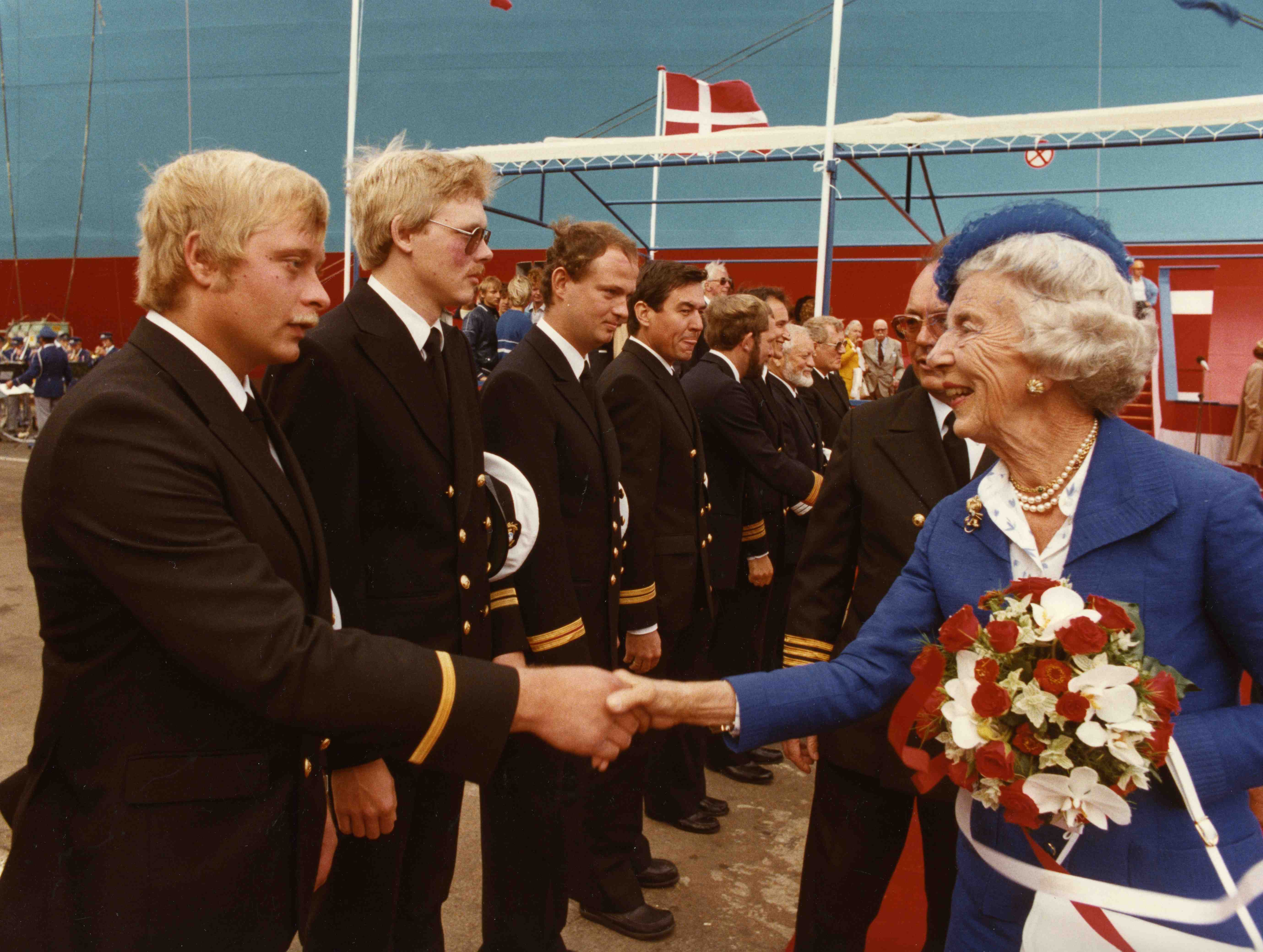 Ingrid of Sweden, Queen Consort of Denmark, greeting the crew of Regina Mærsk in 1983